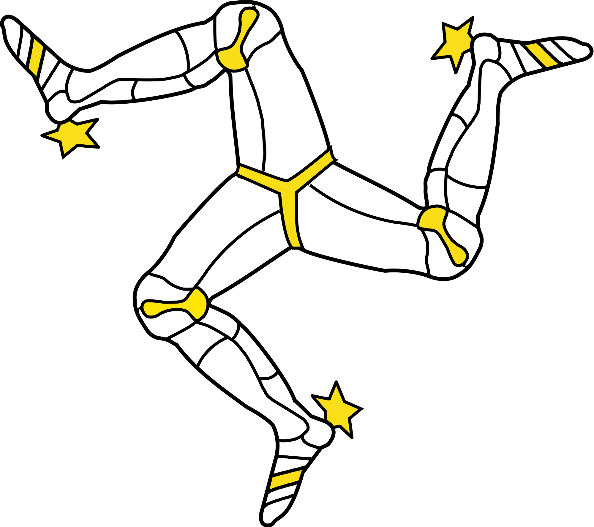 The armoured triskelion on the flag of the Isle of Man